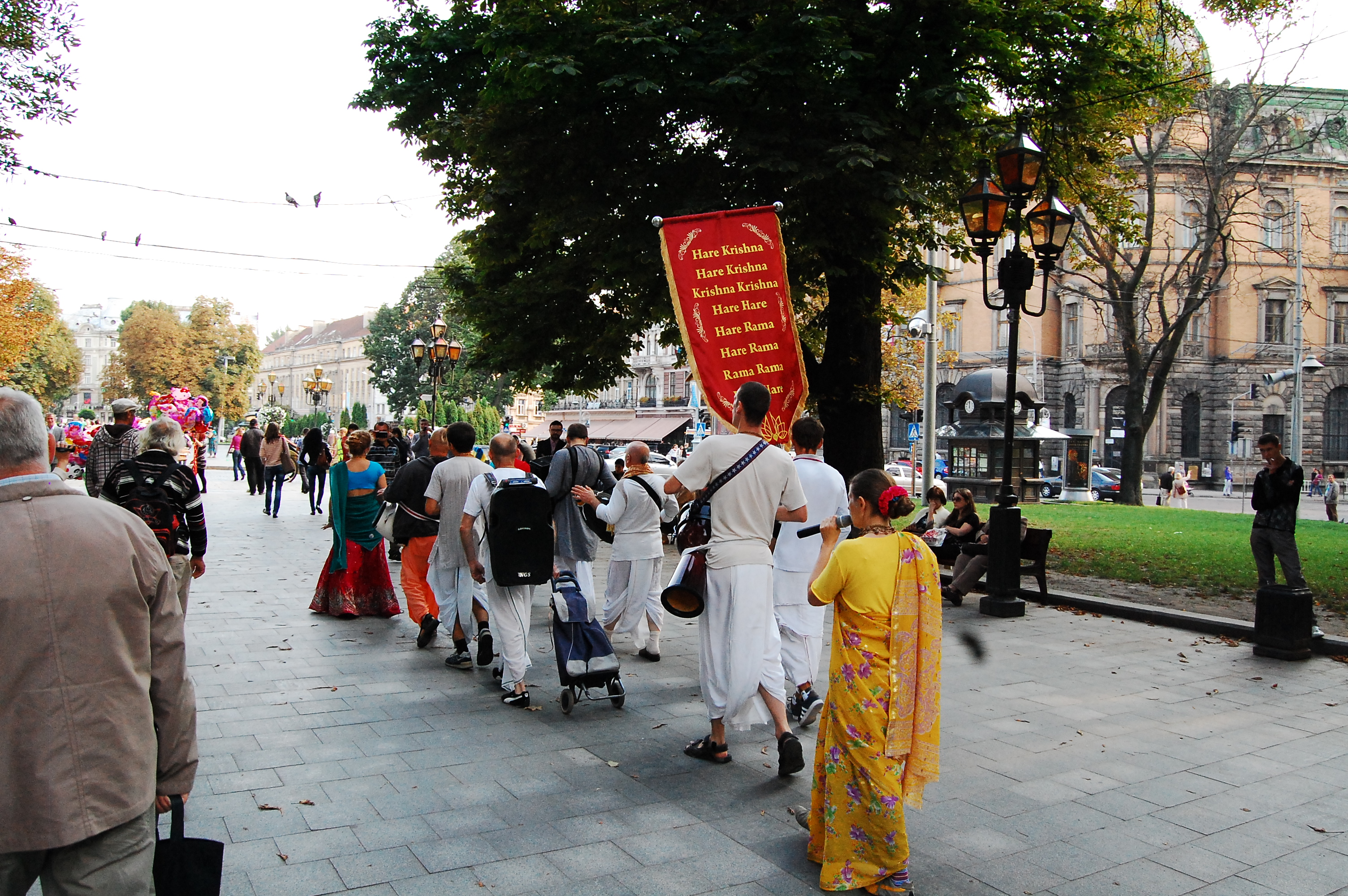 Hindus in Lviv, Ukraine